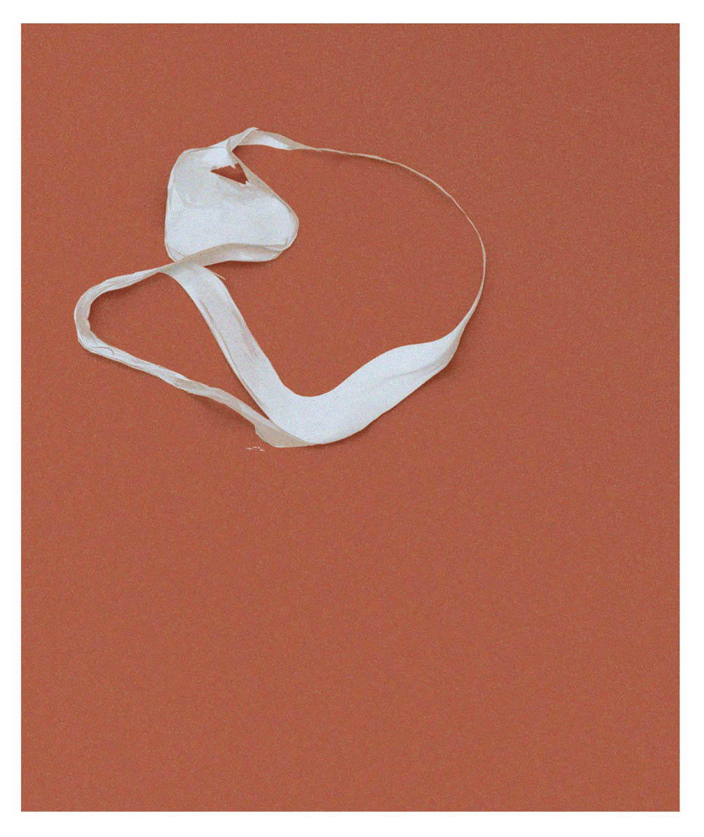 Digital simulation and rendering (Physical simulation)